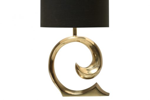 This lamp is often wrongly attributed to Pierre Cardin but is in fact by Erwin Lambeth